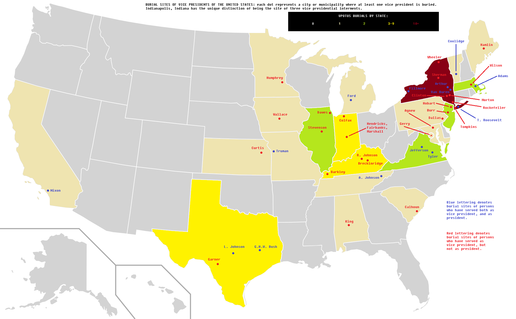 A map of the United States, showing locations of burial sites of United States vice presidents.